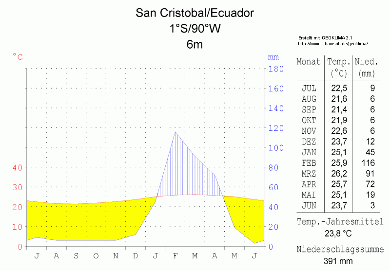 climate chart in the format by Walther and Lieth, metric, °Celsisus and millimeters, made with Geoklima 2.1